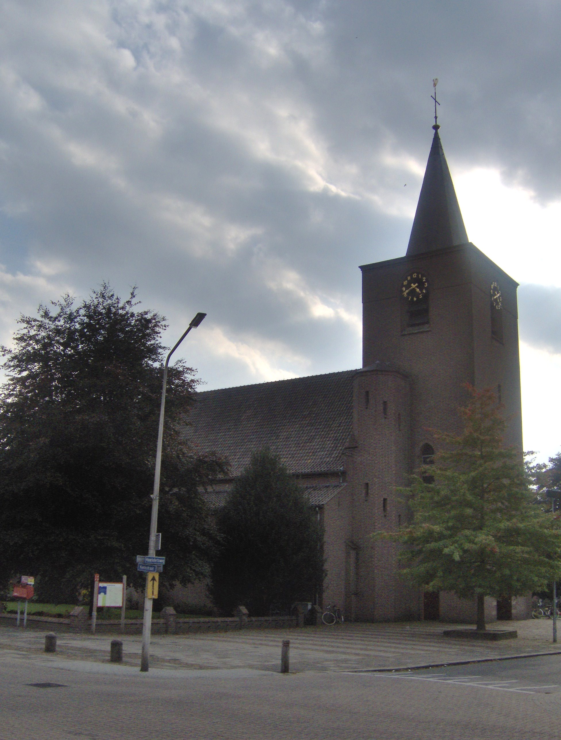 The Roman Catholic Church of Reutum in the municipality of Tubbergen, Overijssel, The Netherlands.